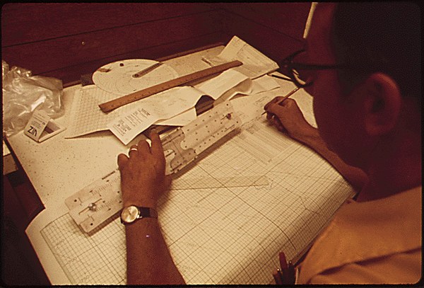 LOS ANGELES REACTIVE POLLUTANT PROGRAM (LARPP) — A UNIQUE MULTI-AGENCY AIR POLLUTION RESEARCH STUDY SPONSORED BY THE COORDINATING RESEARCH COUNCIL, A GOVERNMENT-INDUSTRY RESEARCH GROUP. USED IN THE PROJECT ARE THERMASONDES (WEATHER-TESTING BALLOONS), "TETROONS (AIRBORNE BUOYS USED TO MARK OFF GIVEN SECTIONS OF AIR FOR STUDY), AND EPA HELICOPTERS FOR TRACING AND TAKING SAMPLES. GROUND LEVEL SAMPLES ARE ALSO TAKEN. INFORMATION IS TRANSMITTED BY RADAR. INSIDE U.S. WEATHER SERVICE VANS, PERSONNEL RUN CHECKS ON WEATHER FROM INFORMATION RECEIVED FROM THERMASONDES RELEASED 45 MINUTES BEFORE RELEASE OF TETROONS. From the NARA images of California files.